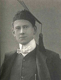 Albin Lindahl (1882-1968) as Charley in Charley's Aunt by Brandon Thomas